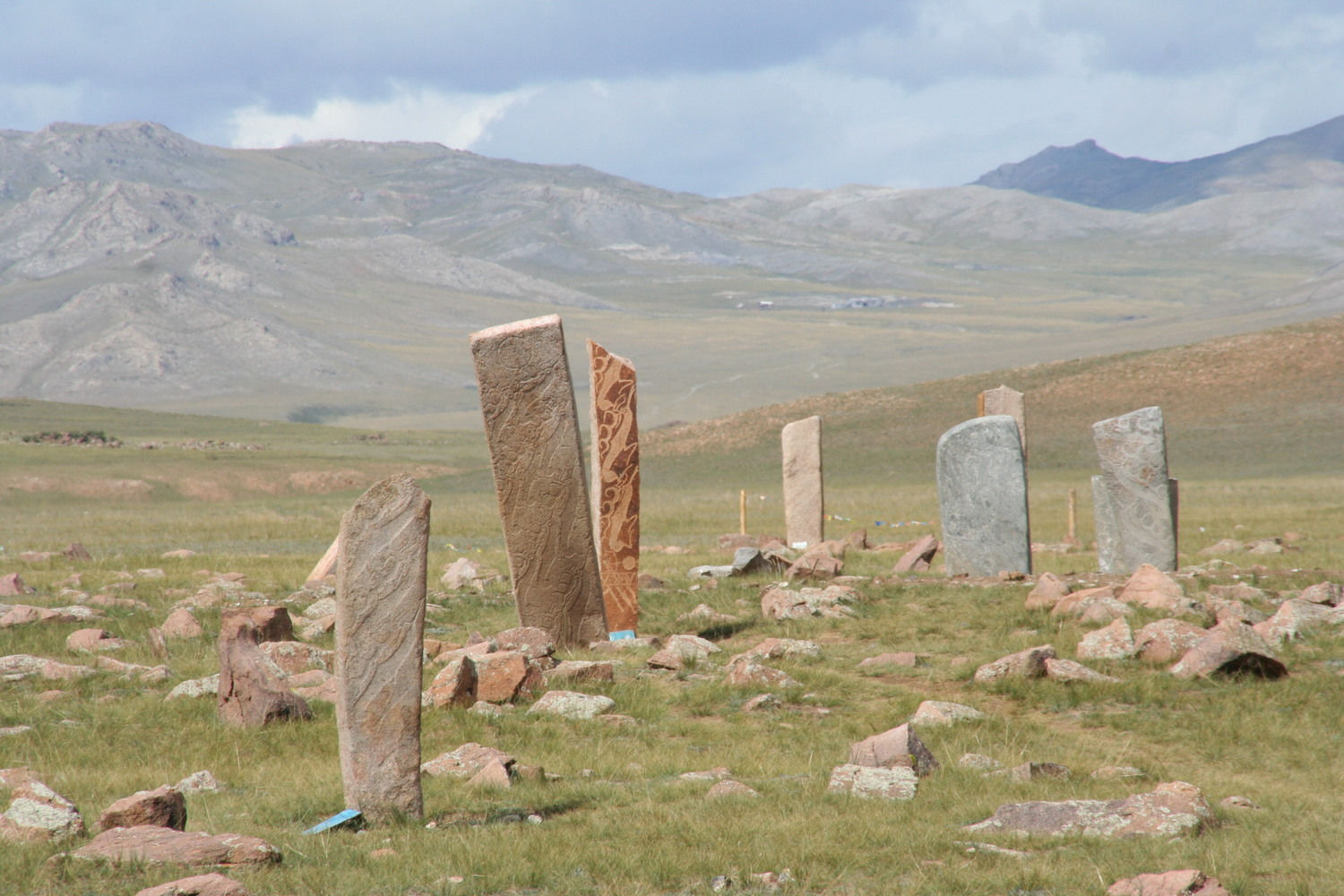 Uushgiin Ovor Deer stone site near Mörönь, Khovsgol aimag, Mongolia